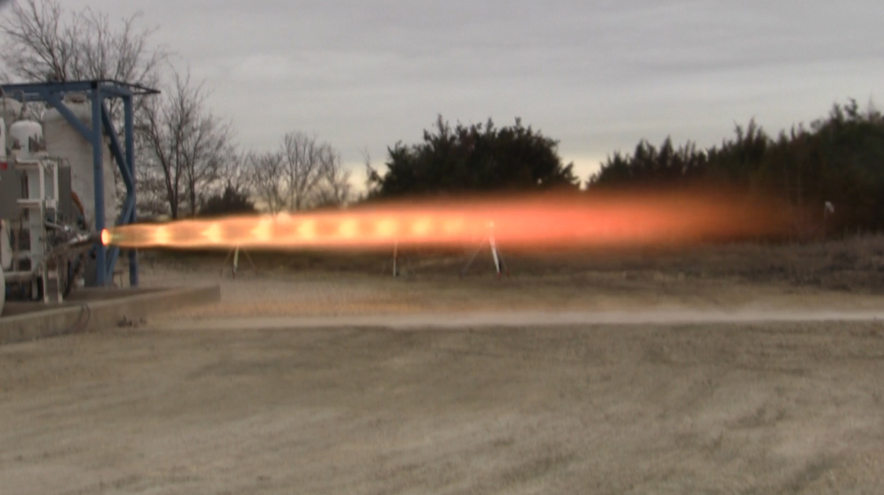 Space Exploration Technologies (SpaceX) completes a full-duration, full-thrust firing of its new SuperDraco engine prototype at the company’s Rocket Development Facility in McGregor, Texas. The firing was in preparation for the ninth milestone to be completed under SpaceX's funded Space Act Agreement (SAA) with NASA's Commercial Crew Program (CCP). SpaceX is working with CCP during Commercial Crew Development Round 2 (CCDev2) in order to mature the design and development of its Dragon spacecraft with the overall goal of accelerating a United States-led capability to the International Space Station. Eight SuperDracos would be built into the sidewalls of the Dragon capsule to carry astronauts to safety should an emergency occur during launch or ascent. The goal of CCP is to drive down the cost of space travel as well as open up space to more people than ever before by balancing industry’s own innovative capabilities with NASA's 50 years of human spaceflight experience. Six other aerospace companies also are maturing launch vehicle and spacecraft designs under CCDev2, including Alliant Techsystems Inc. (ATK), Blue Origin, The Boeing Co., Excalibur Almaz Inc., Sierra Nevada Corp. and United Launch Alliance (ULA). For more information, visit